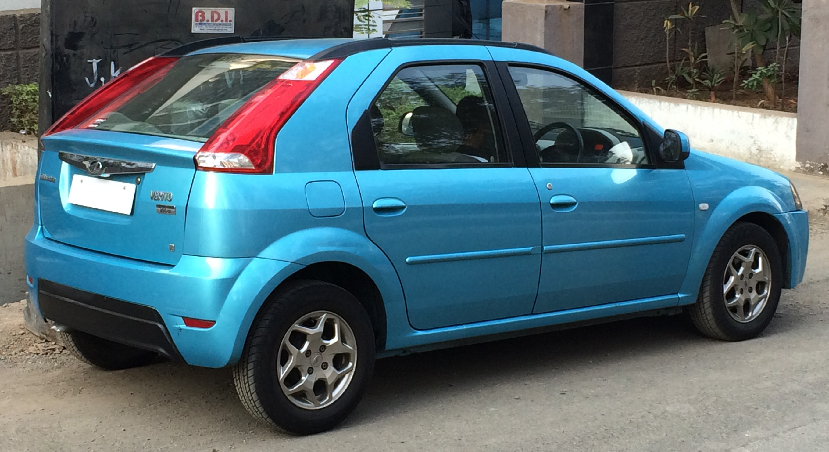 Mahindra Verito Vibe based on the Dacia/Renault Logan platform.